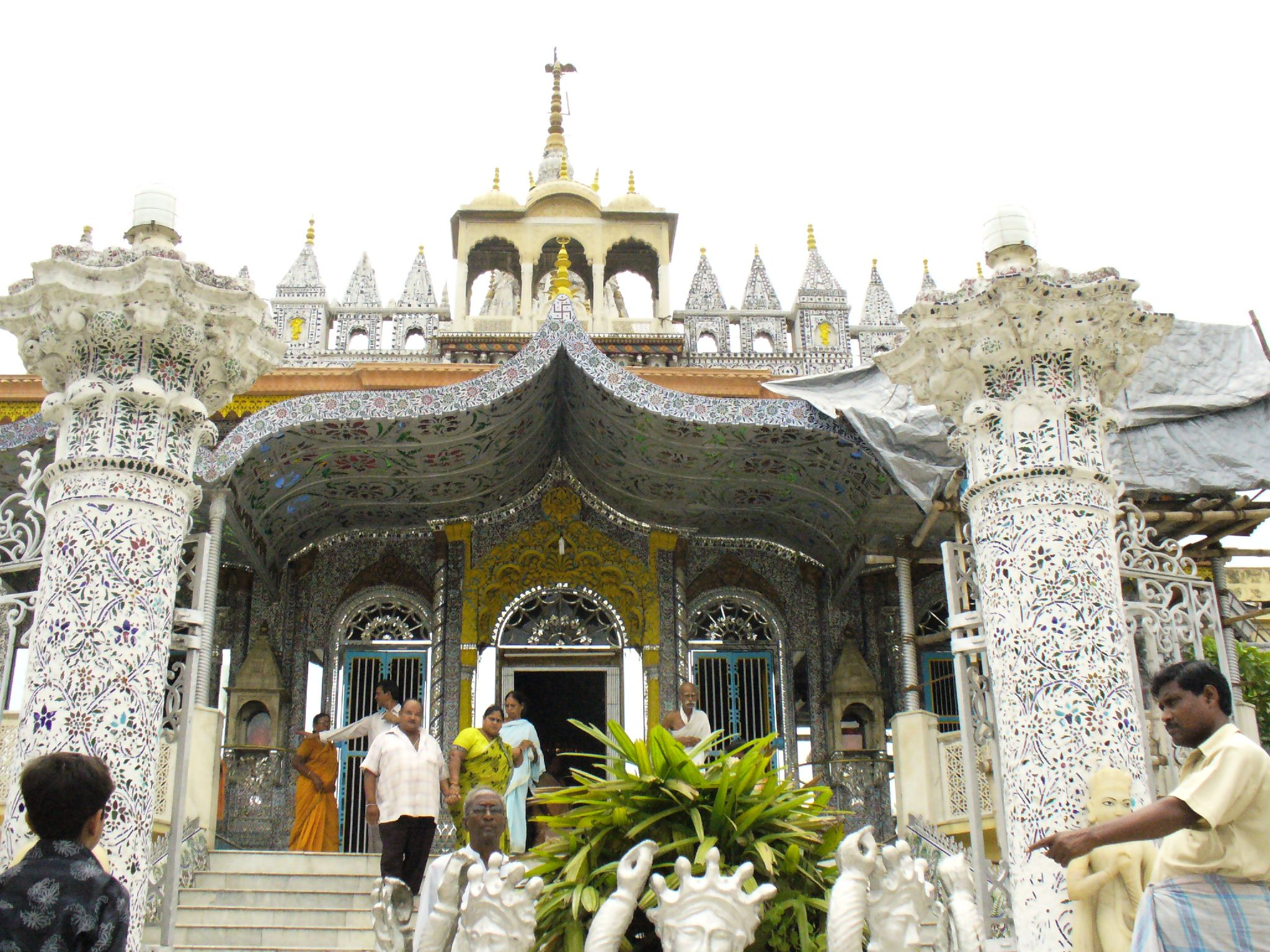 Paresnath temple, Kolkatta